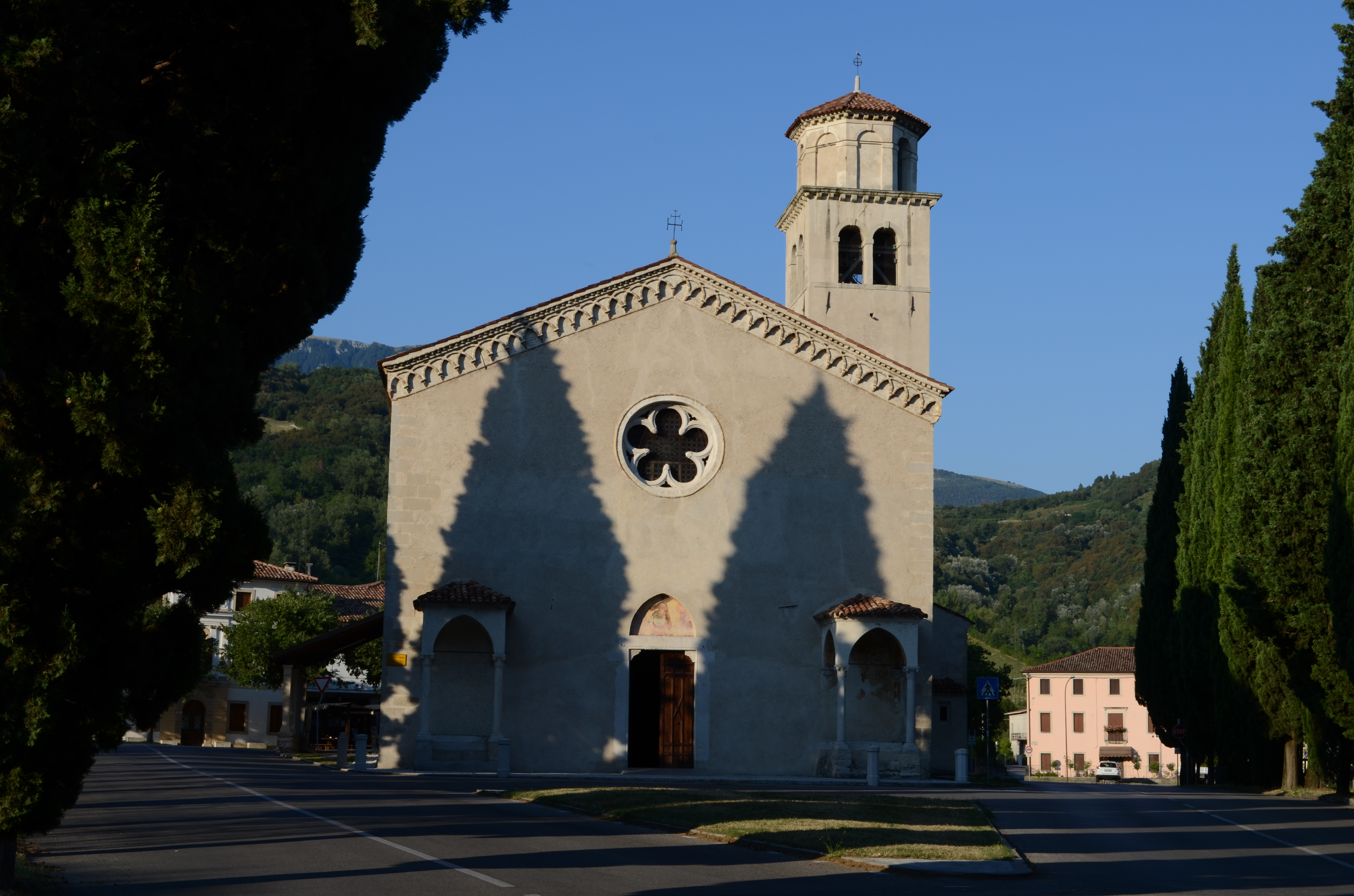 Pieve di Sant'Andrea di Bigonzo, Vittorio Veneto, Italy